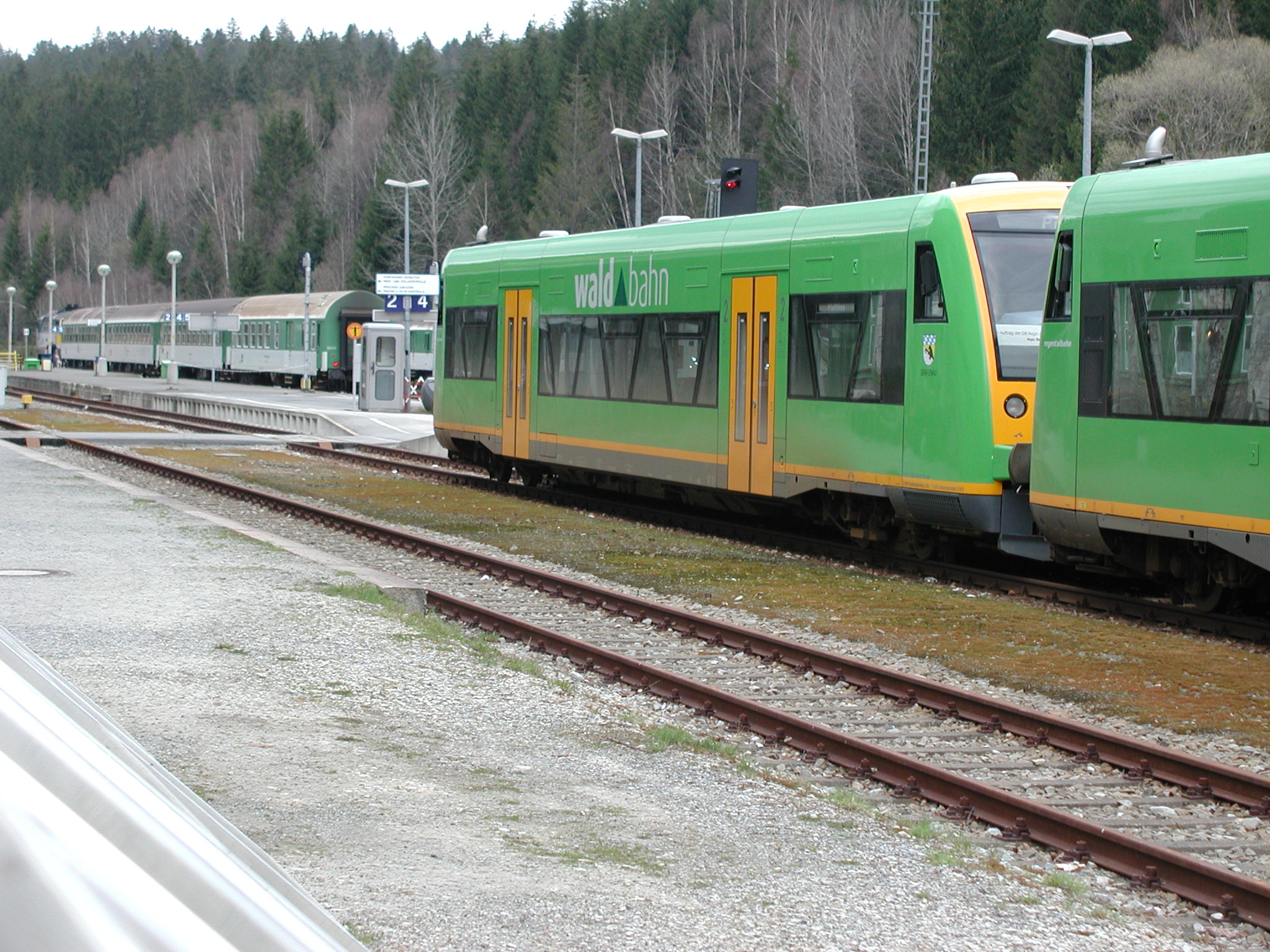 Bayerisch Eisenstein / Železná Ruda-Alžbětín train station with Czech Railways (ČD, České dráhy) train and Waldbahn railbus (from left to right).